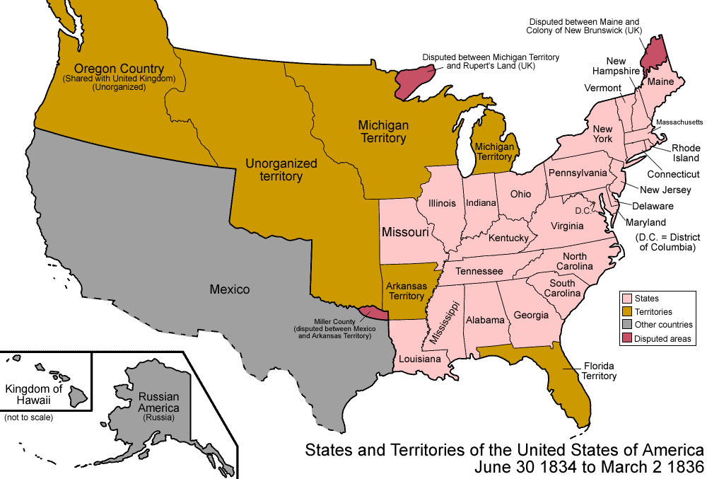 Map of the states and territories of the United States as it was from 1834 to March 1836. On June 30 1834, Michigan Territory was expanded into previously unorganized land. On March 2 1836, the Republic of Texas achieved independence from Mexico, though large portions remained disputed.